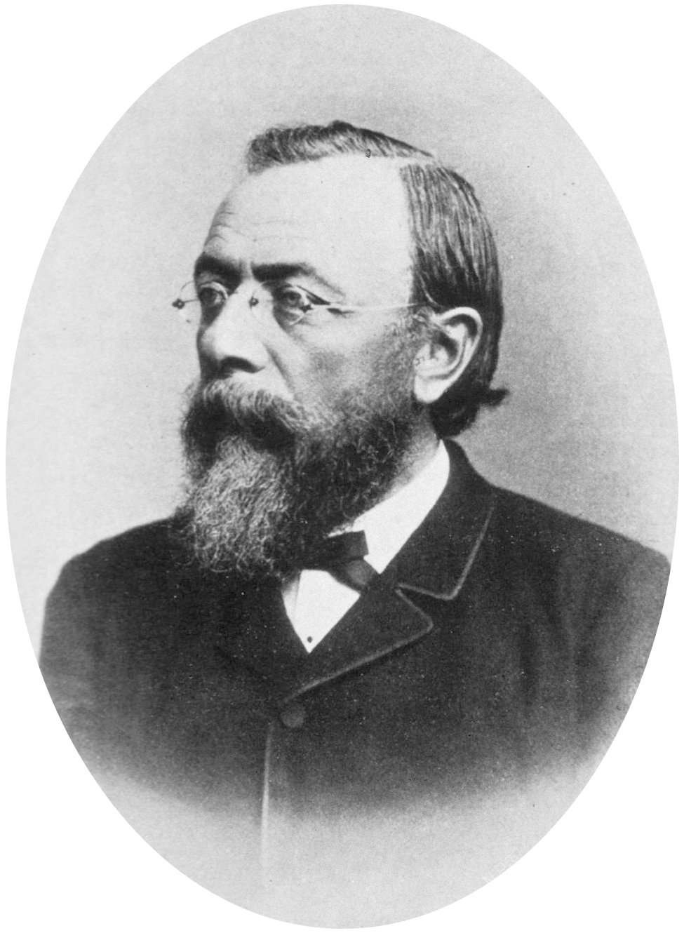 The physician Karl von Liebermeister or Carl von Liebermeister (1833-1901), published in München by J.F. Lehmann